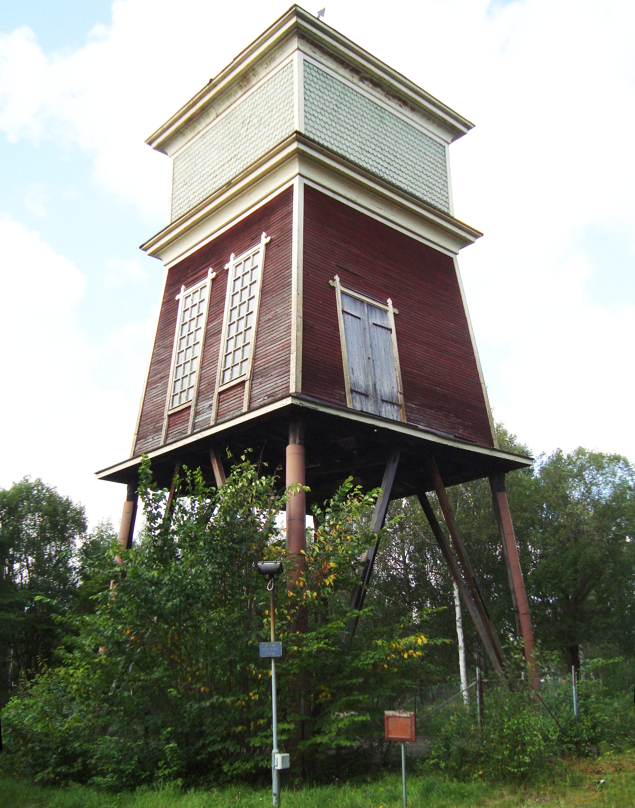 Mine museum of Mossgruveparken South mineshaft headframe (Södra schaktets lave), Kärrgruvan, Sweden